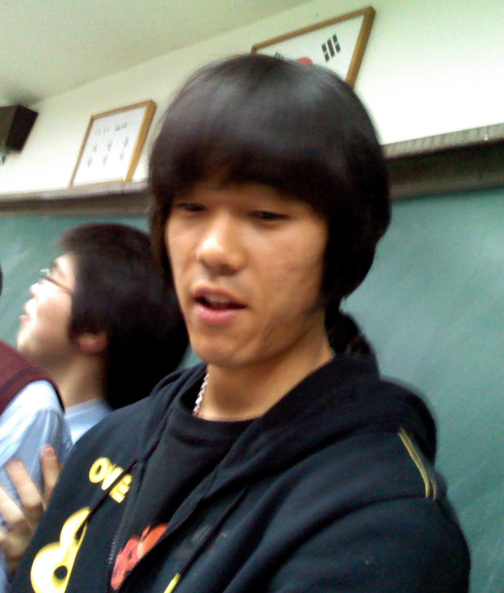 Korean Football Player, Park, Chu-young(박주영). In Dongbuk High School, taking student teaching. / 동북고등학교에서 교생 실습중인 박주영.